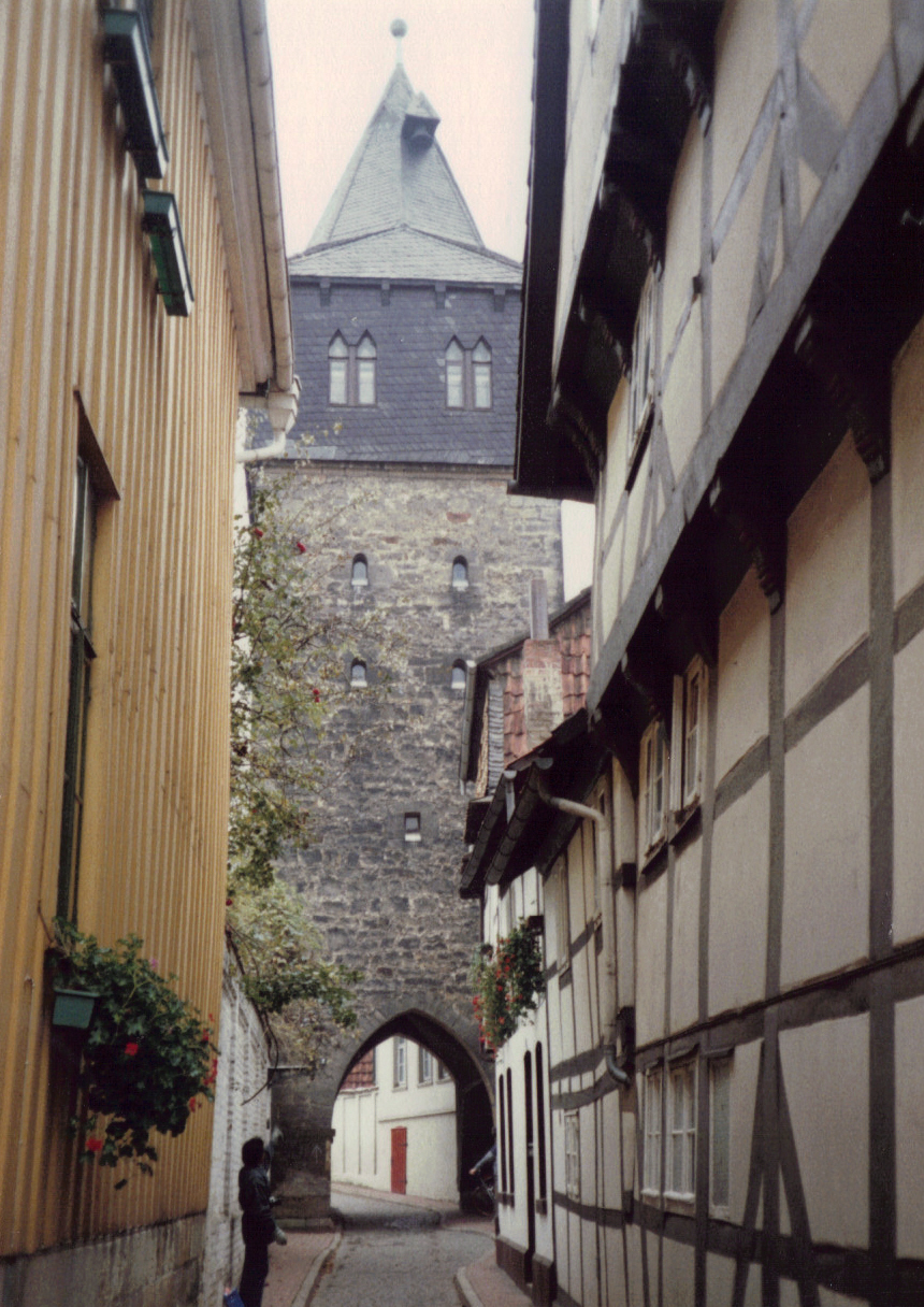 Hildesheim: Tower Kehrwiederturm (14th century).